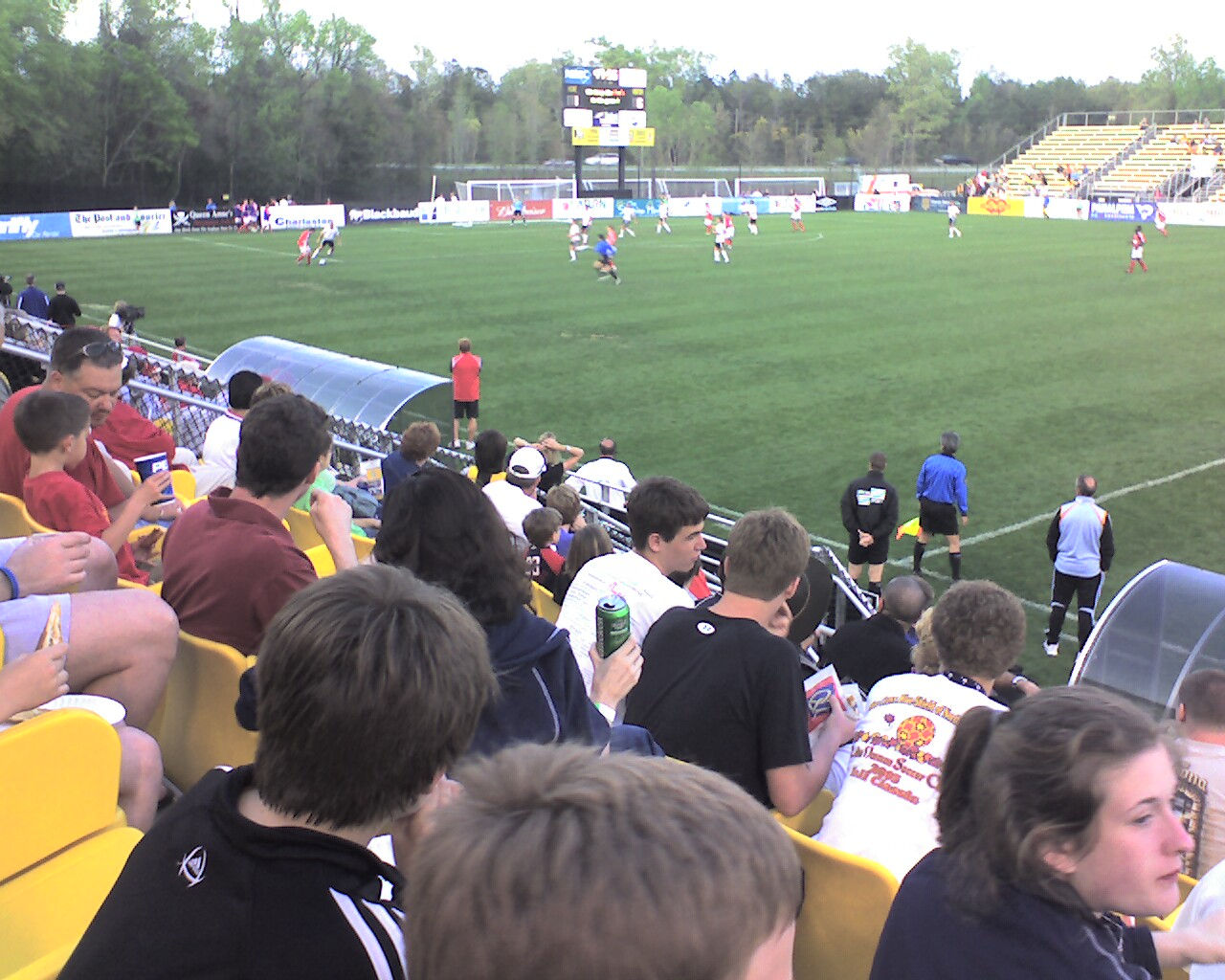 Home of the Charleston Battery of the USL First Division, Blackbaud Stadium hosts an annual soccer tournament, the Carolina Challenge Cup, with three Major League Soccer teams. My wife and I first went in 2006 to cheer for the Houston Dynamo, who had just left San Jose at that time, dressed in our San Jose Earthquakes gear. We had such a great time we went again in 2007. With the Quakes returning to MLS in 2008, I hope they go to this tournament so we can cheer for them there next March!